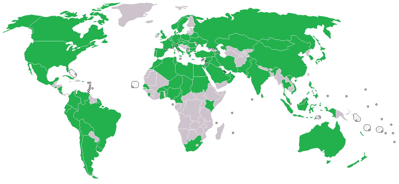 dark green - members